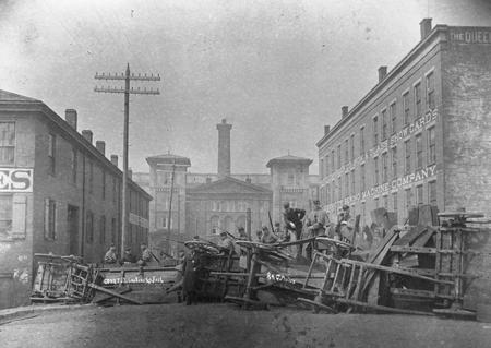 Ohio National Guard troops manning a barricade on Court Street looking toward the jail, Cincinnati, Ohio, March 1884. Troops were brought to bring an end to riots sparked by public outrage over the outcome of a murder trial.